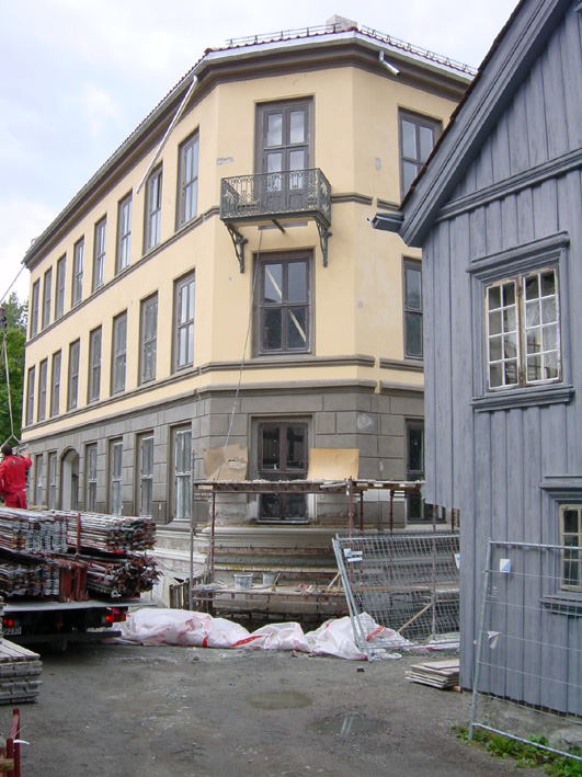 Tenement building from 15 Wessels gate in Oslo under re-erection in the "Old Town" of Norsk Folkemuseum, 2001.